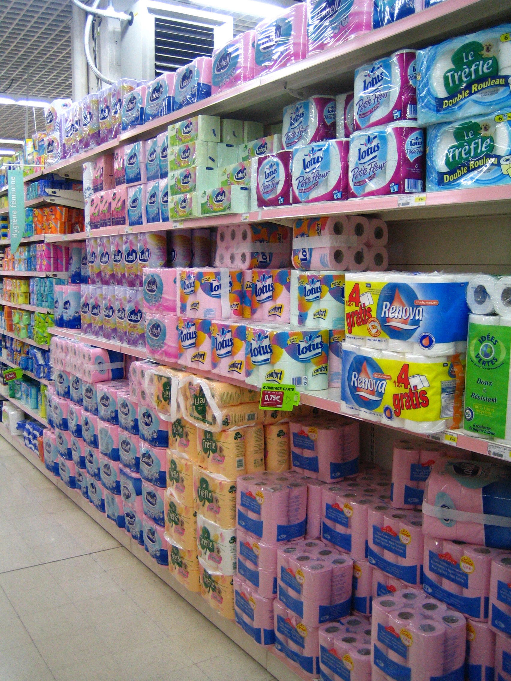 Toilet paper rolls on a supermarket shelf